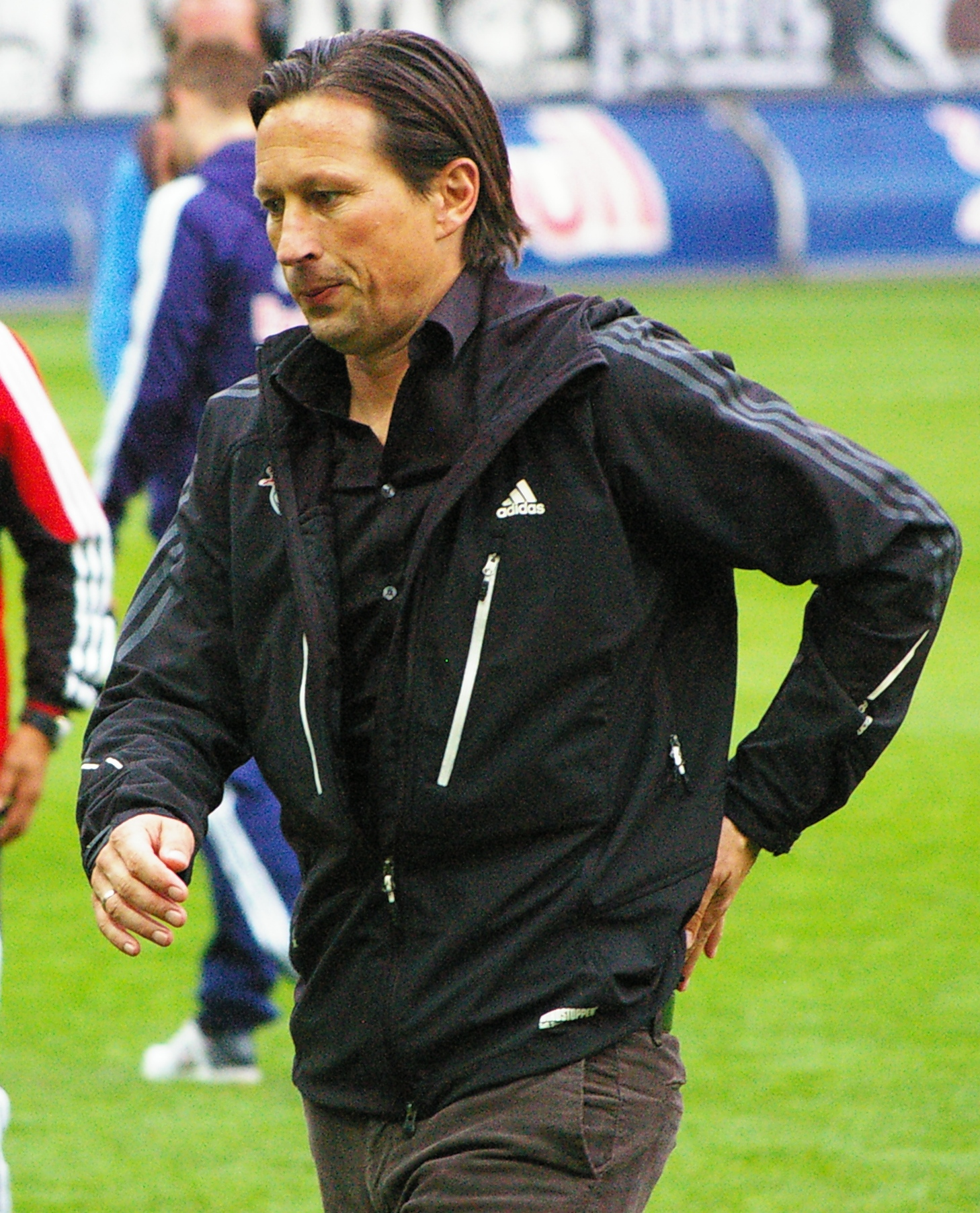 league match